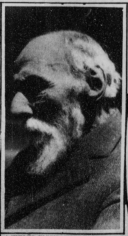 "A TITLED WASHINGTONIAN. Henry Edward Pellew, a ninety-four year-old resident of Washington, who recently succeeded to the title of Viscount of Exmouth and 3,000 acres of British soil, finally consents to be photographed. The aged gentleman, who places his half century of American citizenship before his British viscountcy, intends to spend his remaining days at the capital." (Original photo credited to: Underwood)